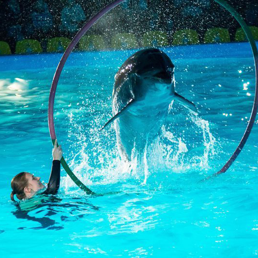 Минский дельфинарий "Немо": шоу